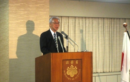 Toshio Ogawa, Minister of Justice, attended the press conference at the Central Government Building No.6 in Chiyoda Ward, Tōkyō Metropolis on January 13, 2012. (For terms of use, see 法務省：法務省ウェブサイトのコンテンツの利用について.)